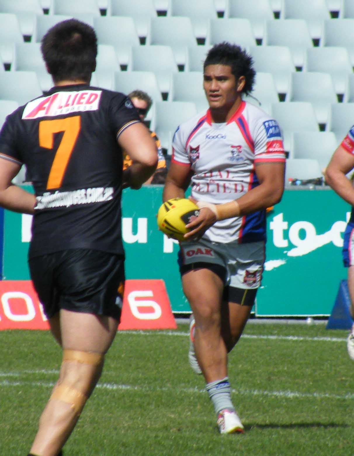 Peter Mata"utia of the Newcastle Knights under 20's